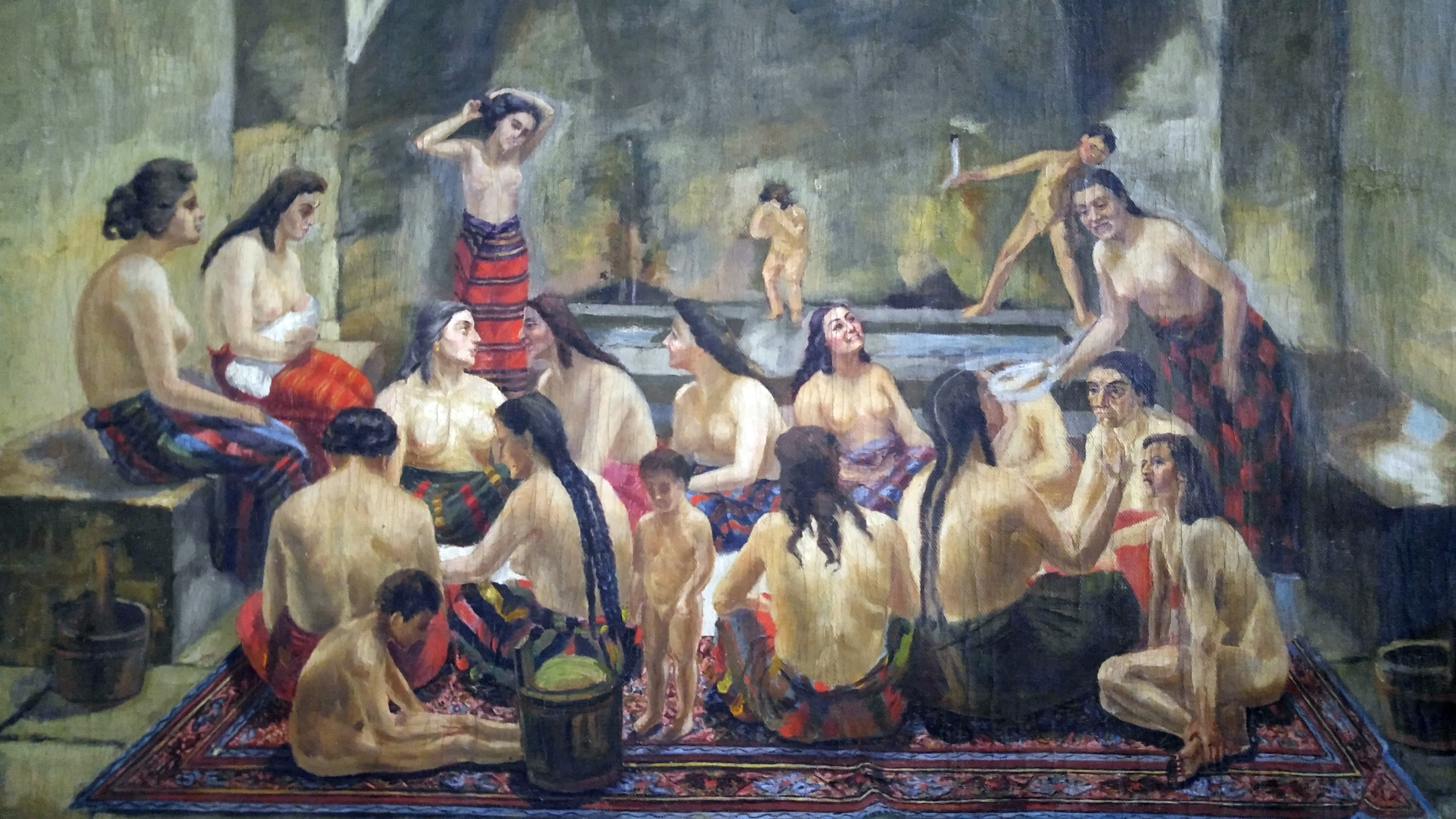 Small museum on the history of Tbilisi, exhibiting a collection of artifacts & old photographs.